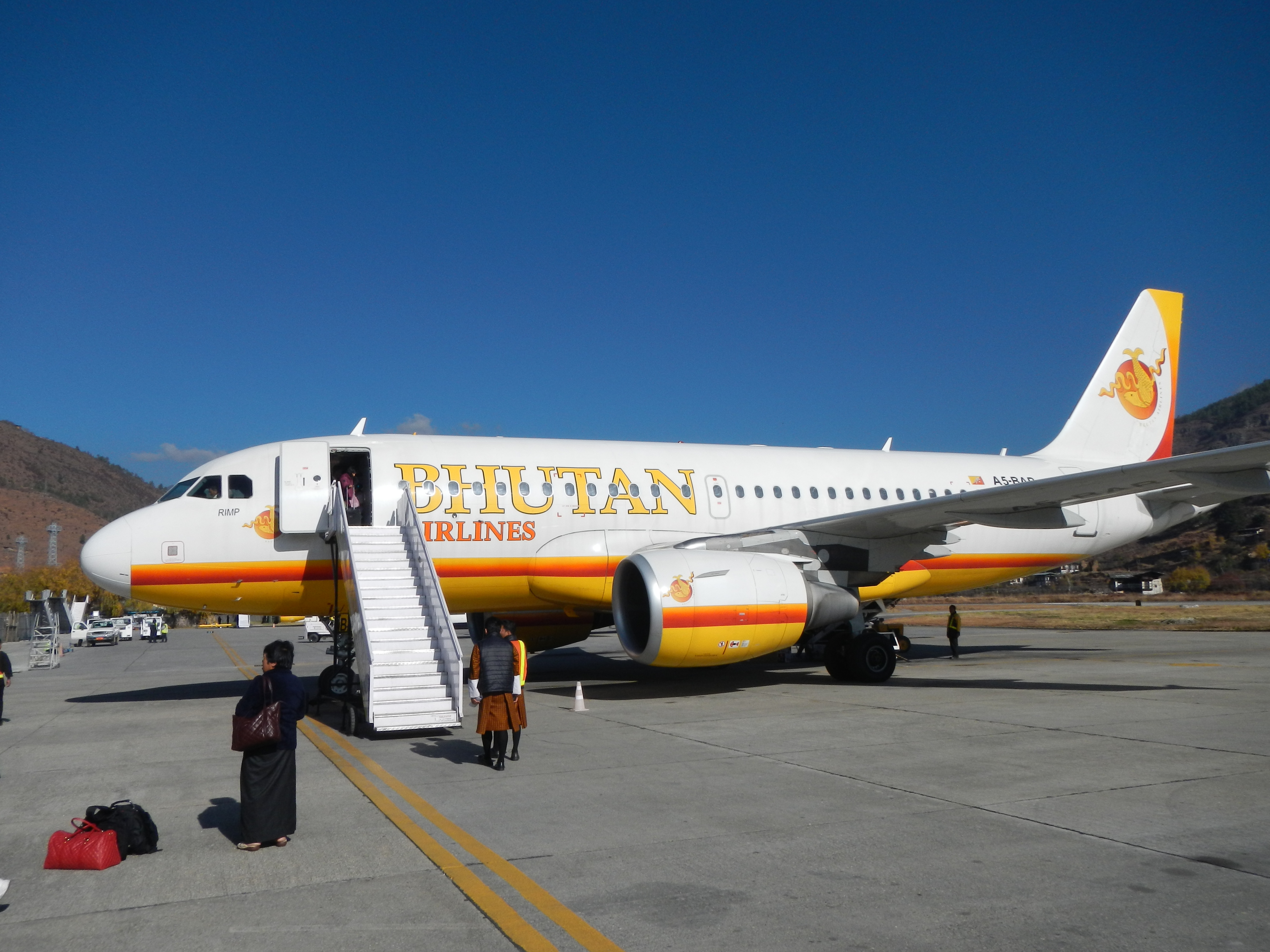 Bhutan Airlines Airbus A319-112 (A5-BAB) at Paro Airport